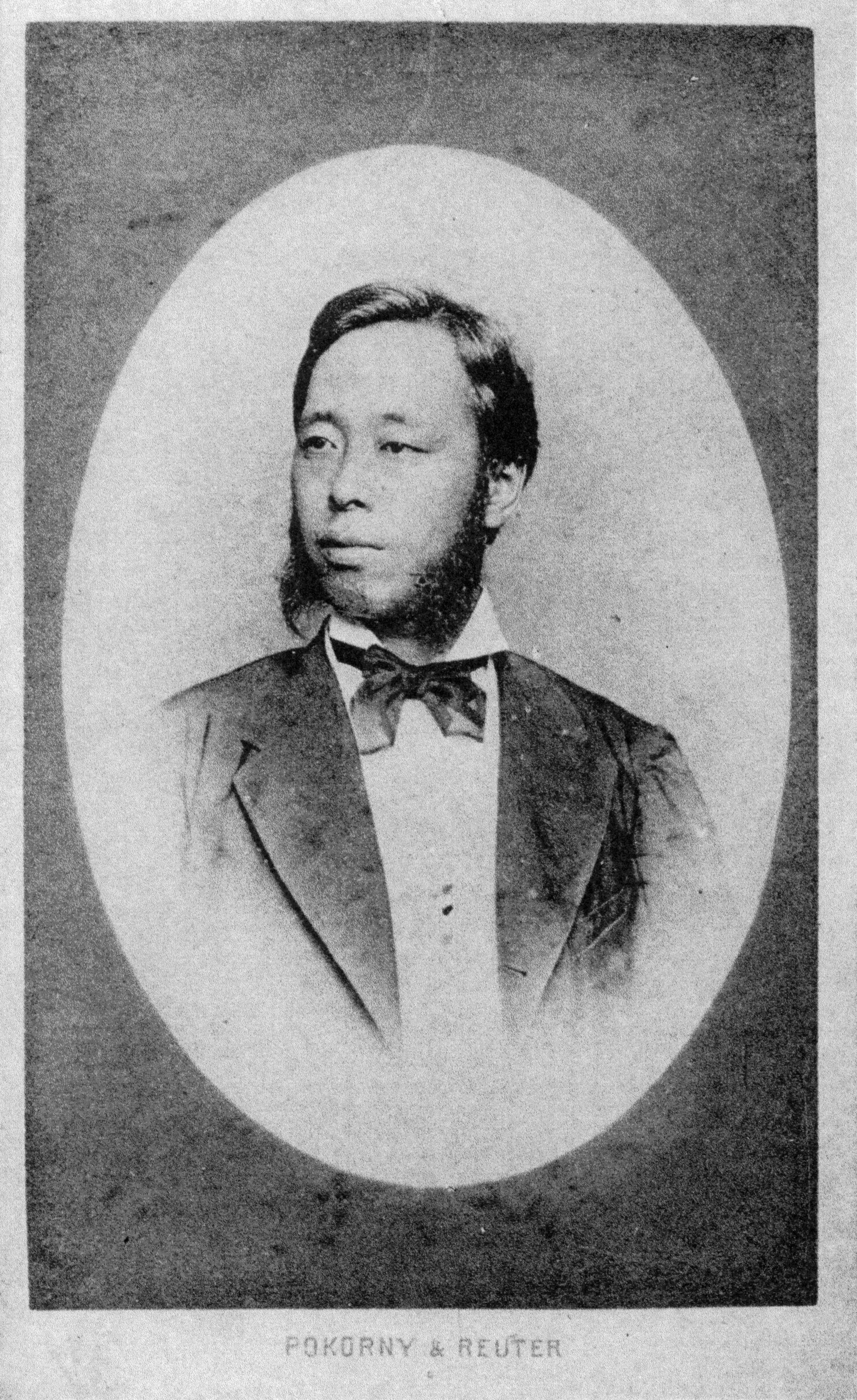 Furukawa Masao.